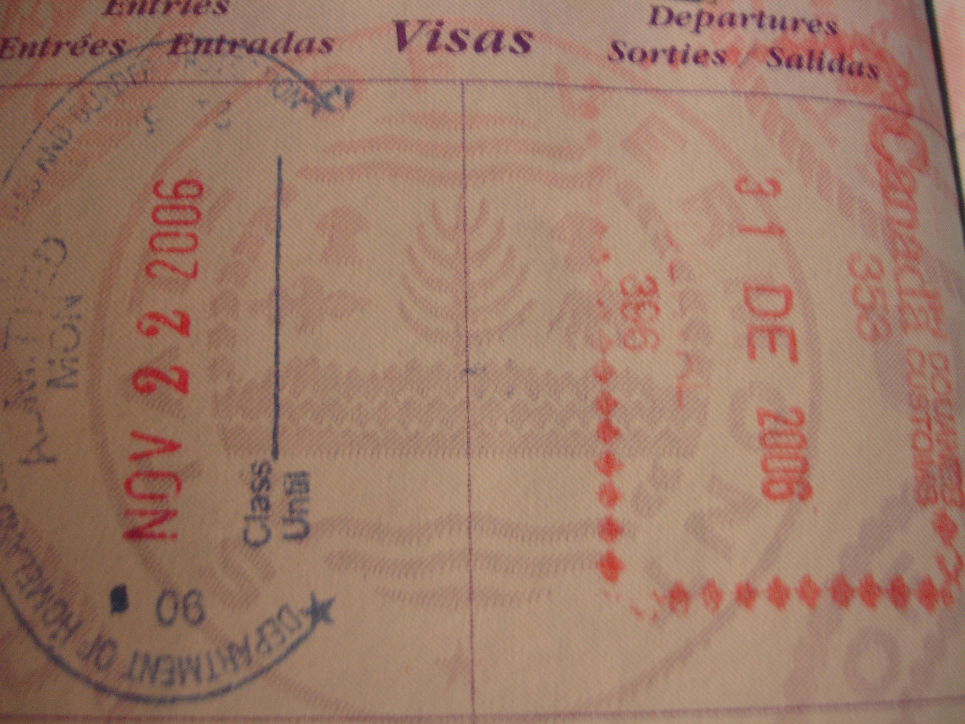 Stamps in a United States passport, one from Canada Border Services Agency at Trudeau International Airport and the other from US Customs, also at Montréal Airport.